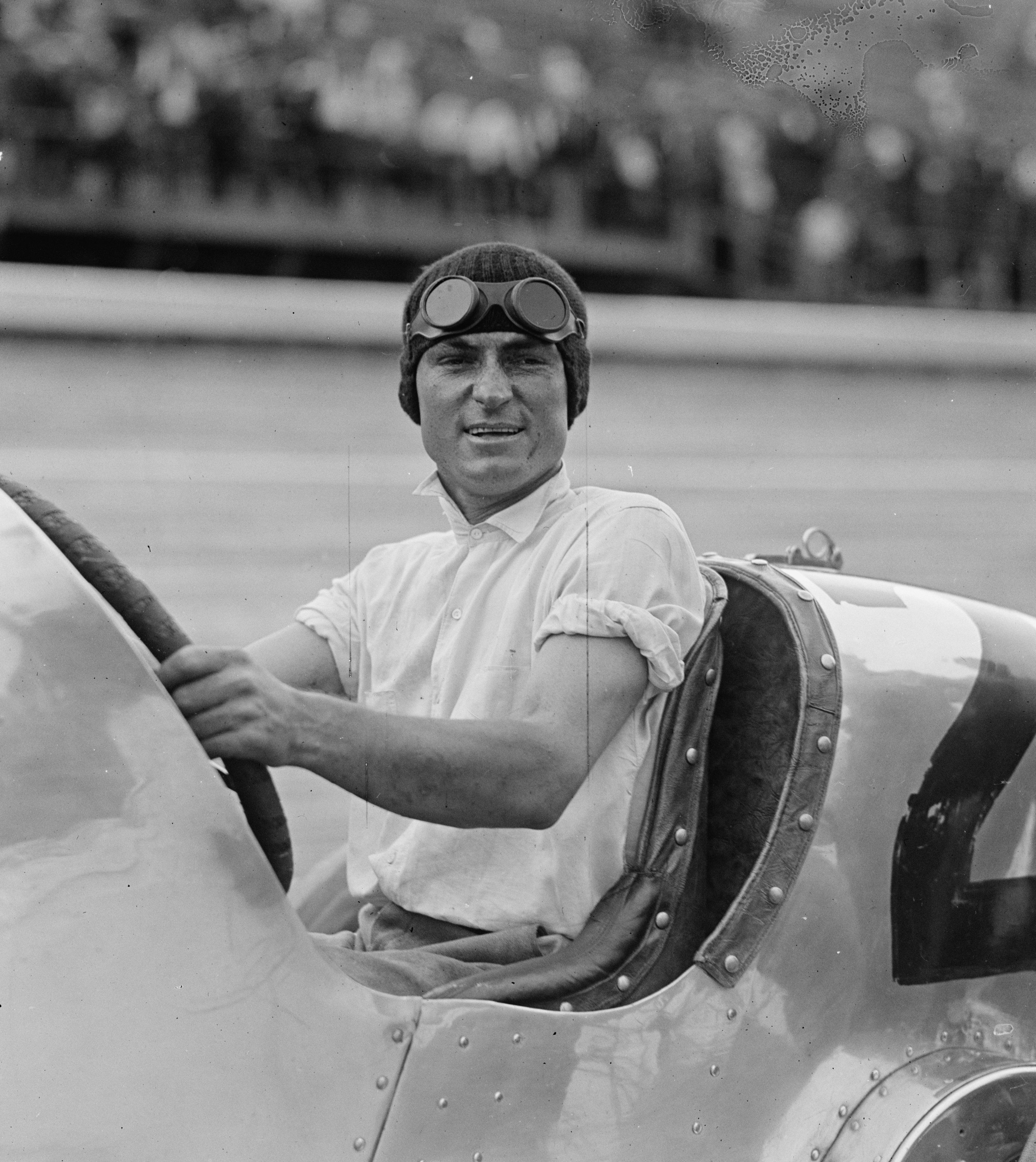 Title: Earl Devore Abstract/medium: 1 negative : glass ; 4 x 5 in. or smaller